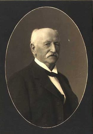 Danish landowner and politician, MP Ludvig Theodor Schütte (1835-1915)